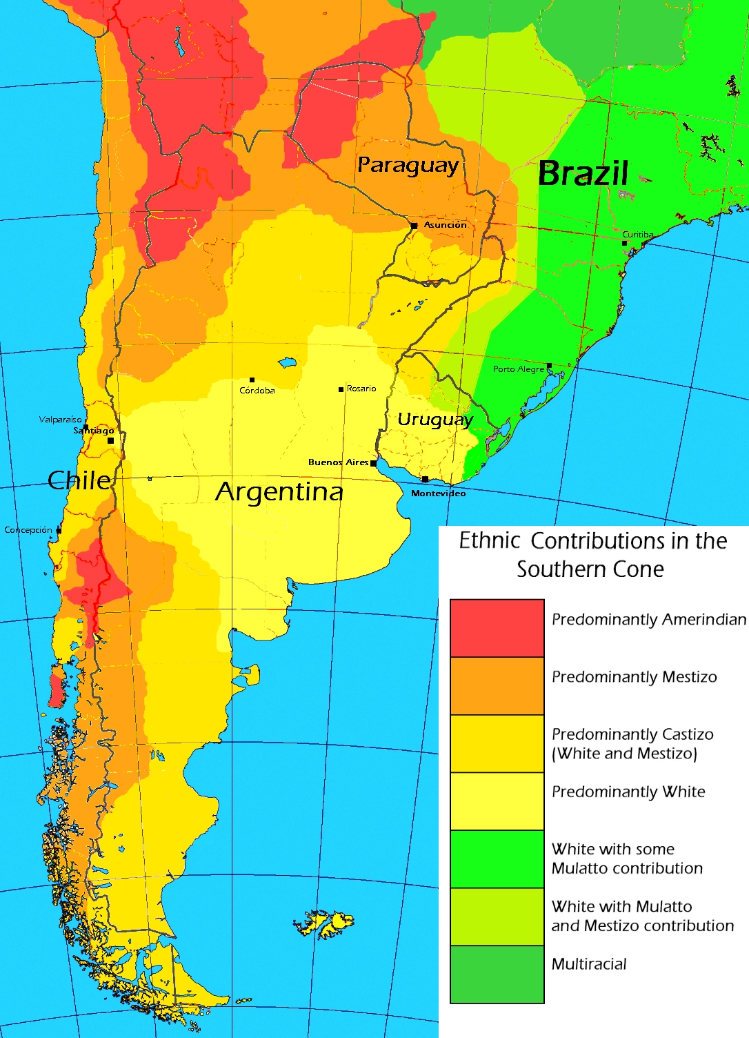 Southern Cone main ethnic groups at the end of the 20th century